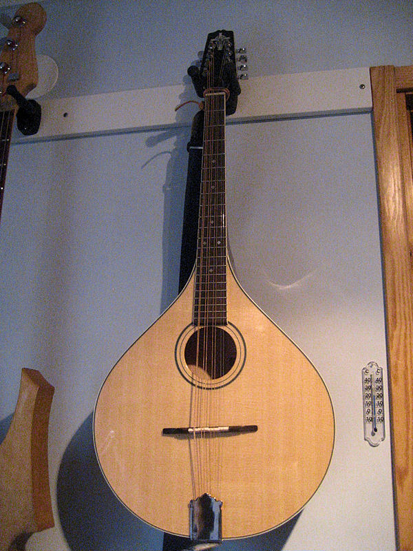 Trinity College octave mandolin